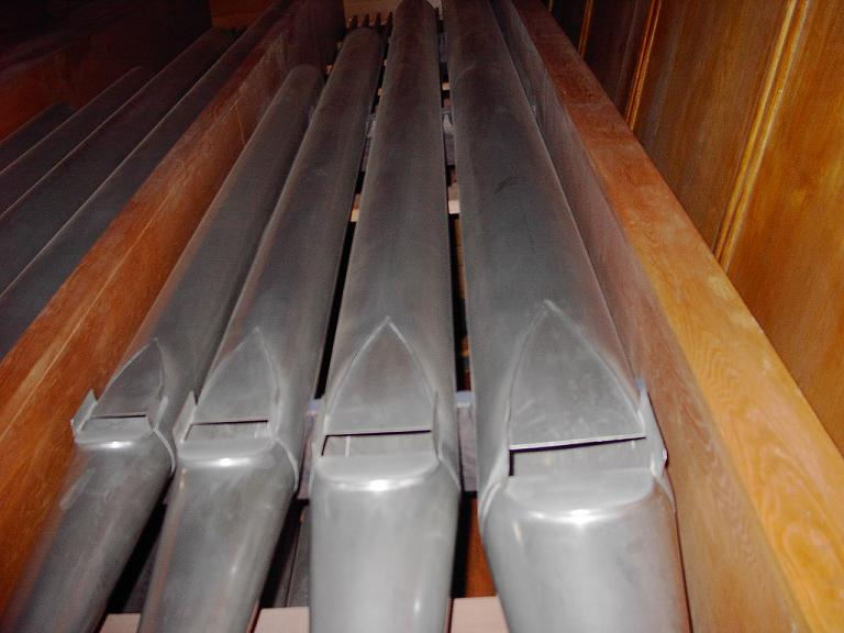 Principal pipes ot the "Schuke" organ in Sofia, Bulgaria